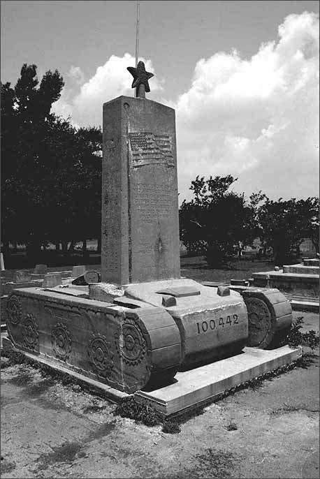 Monument to the Men of the 100th Battalion/442nd Regimental Combat Team, Rohwer Memorial Cemetery This image or media file contains material based on a work of a National Park Service employee, created as part of that person's official duties. As a work of the U.S. federal government, such work is in the public domain. See the NPS website and NPS copyright policy for more information. Object location33° 45′ 59″ N, 91° 16′ 49″ W